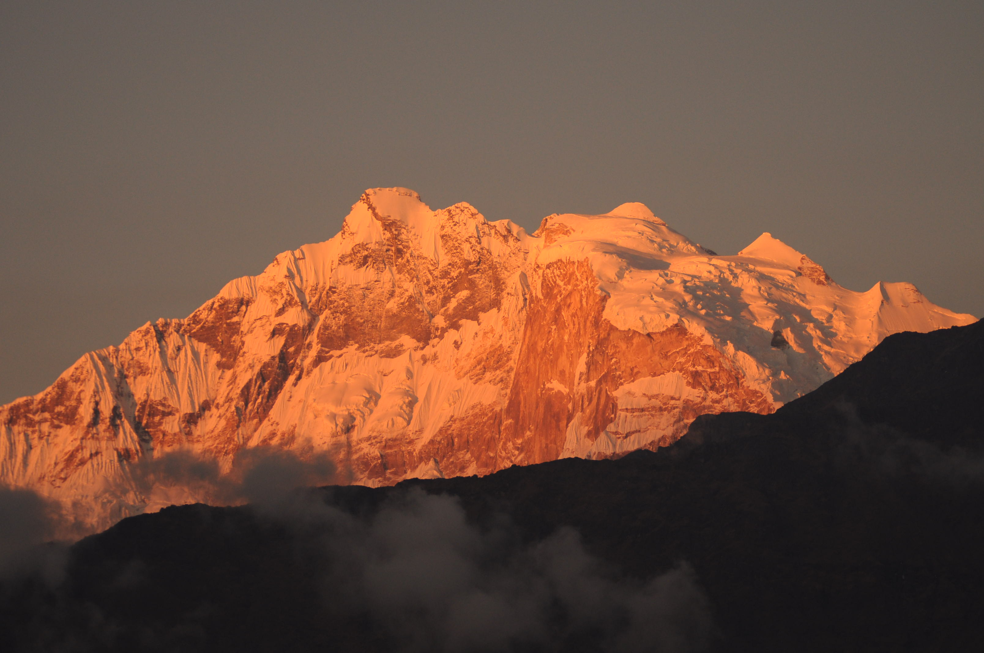 A view of Mt Annapurna I from Ghandruk